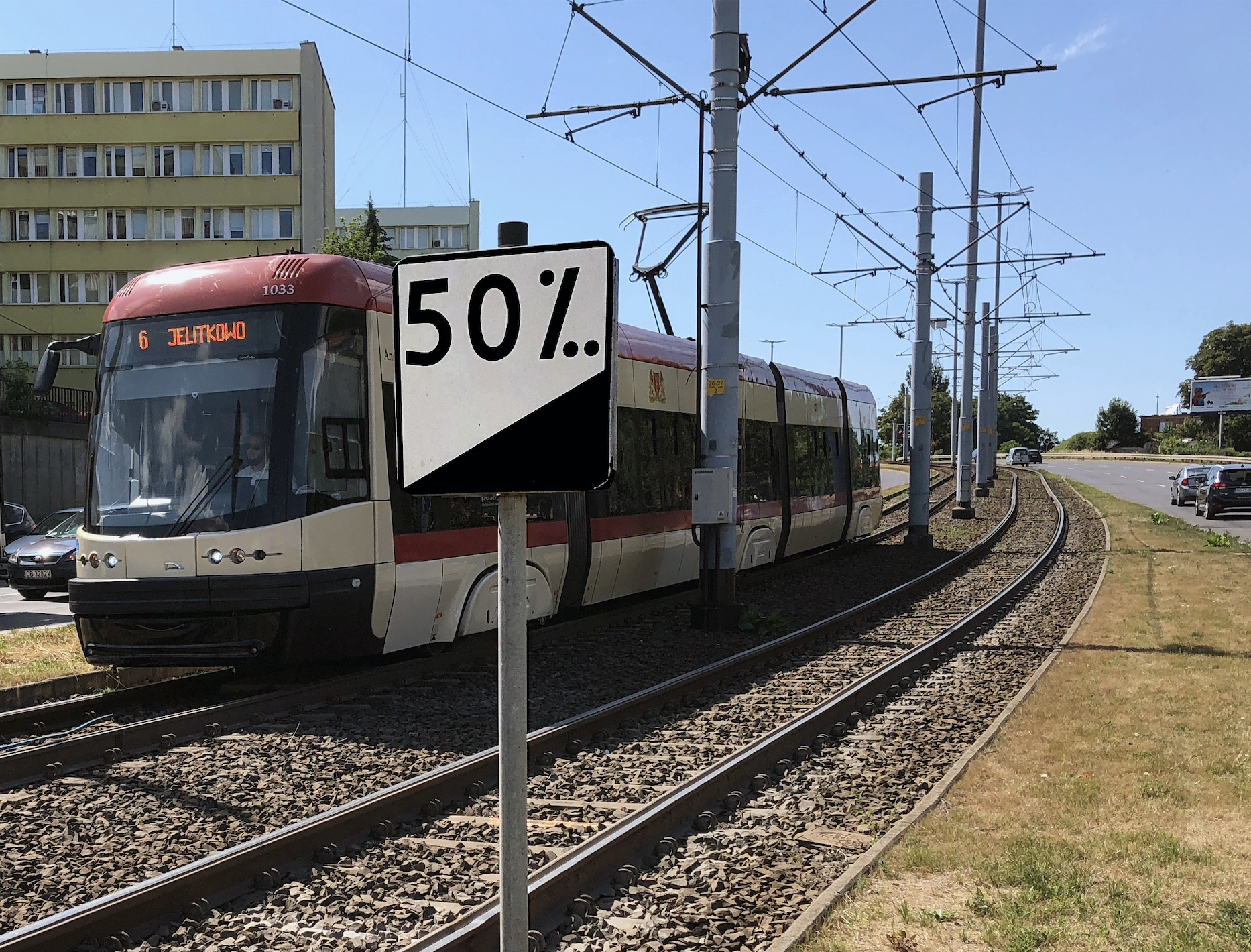 A railroad distance and gradient sign in Gdańsk, Poland. The 50‰ grade is equivalent to 5%.